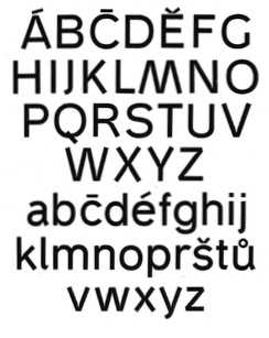 Metron typeface, original design from 1970–74 by J. Rathouský